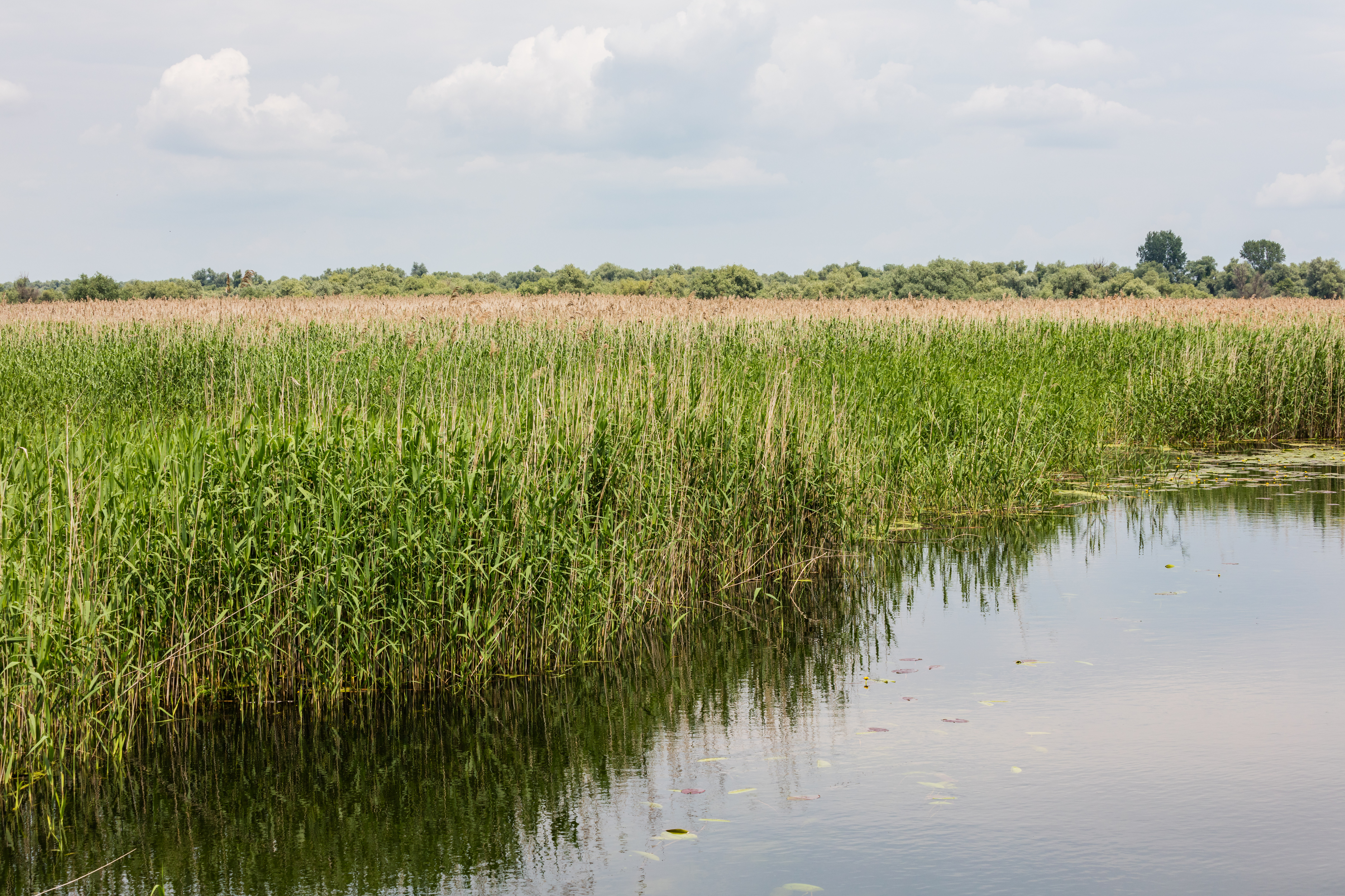 Reeds (Phragmites australis), Danube Delta, Romania